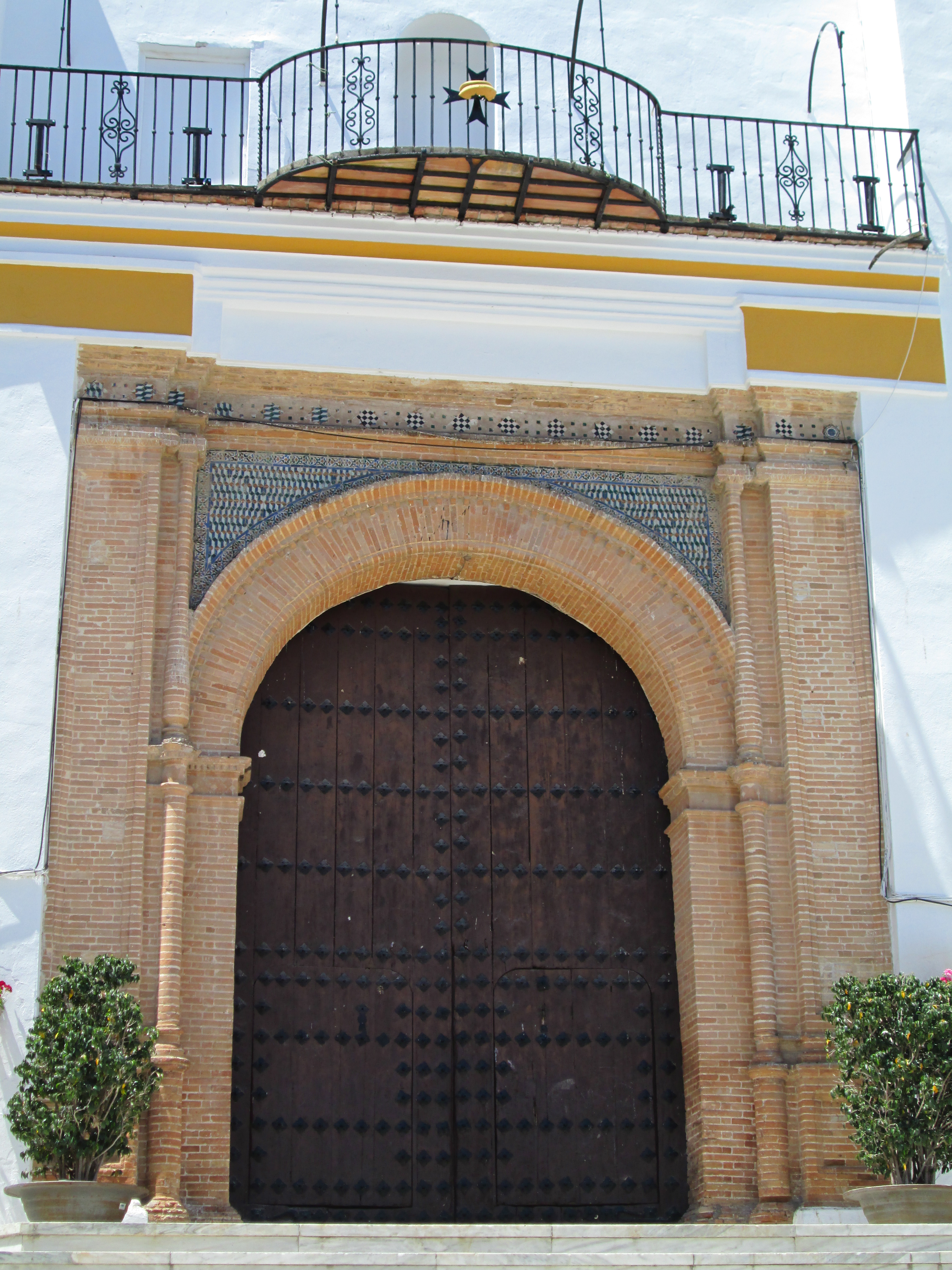 San Juan Bautista Church, Coín